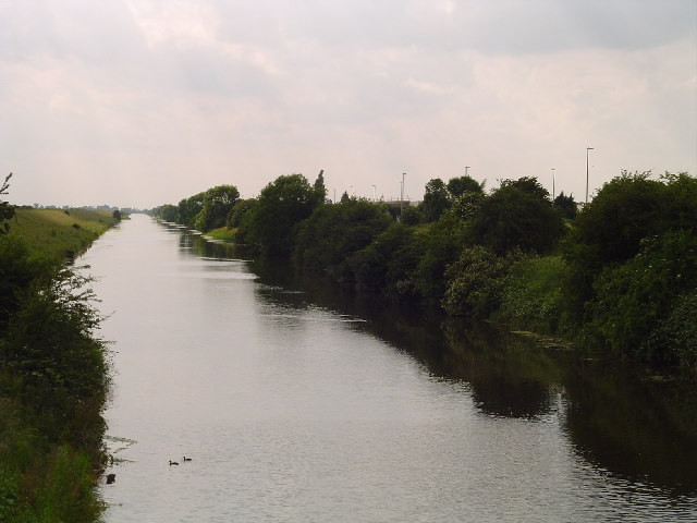 South Forty foot Drain. South Forty Foot Drain taken from the A52 Bridge at Boston. Looking towards Hubberts Bridge